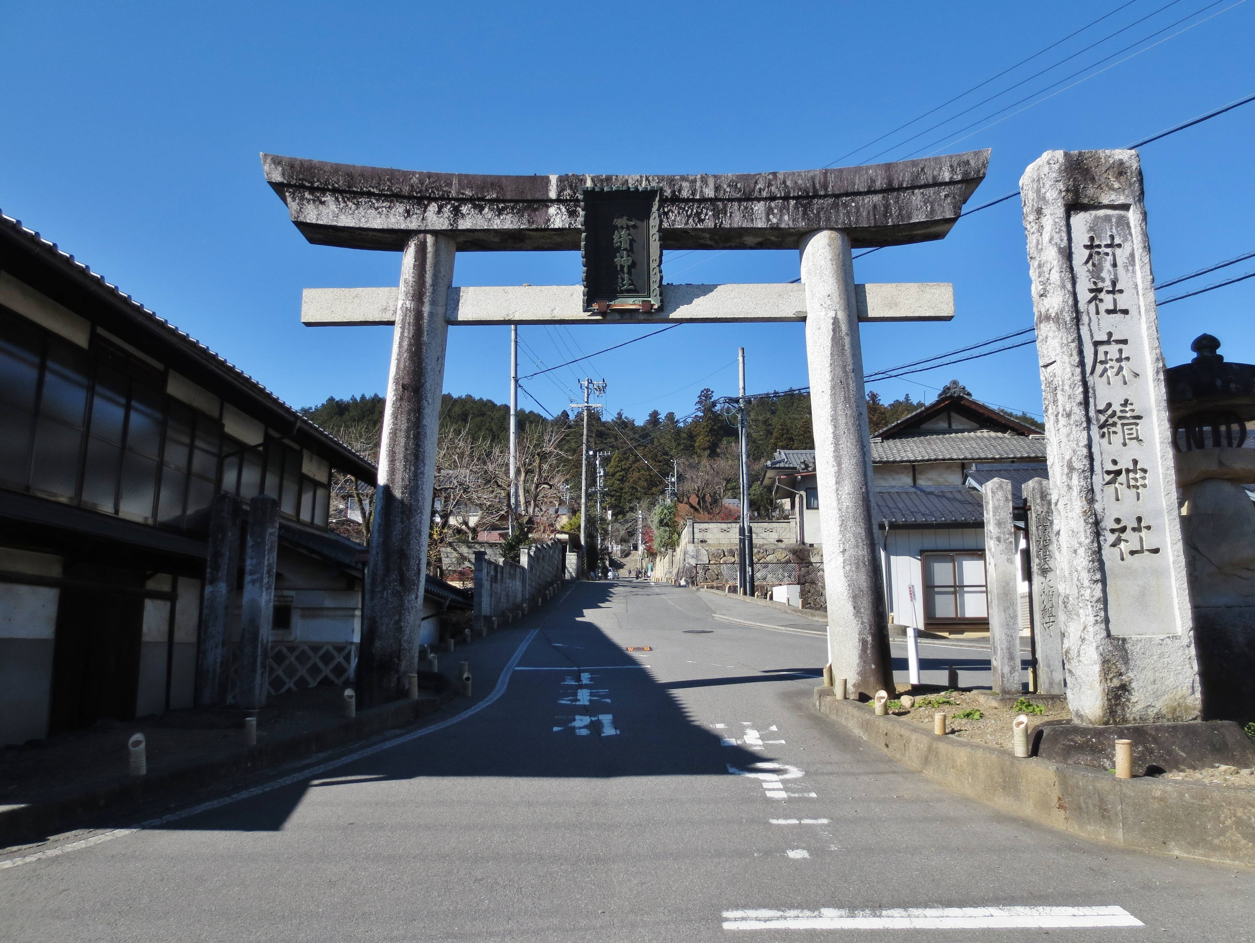 Omi-jinja torii.